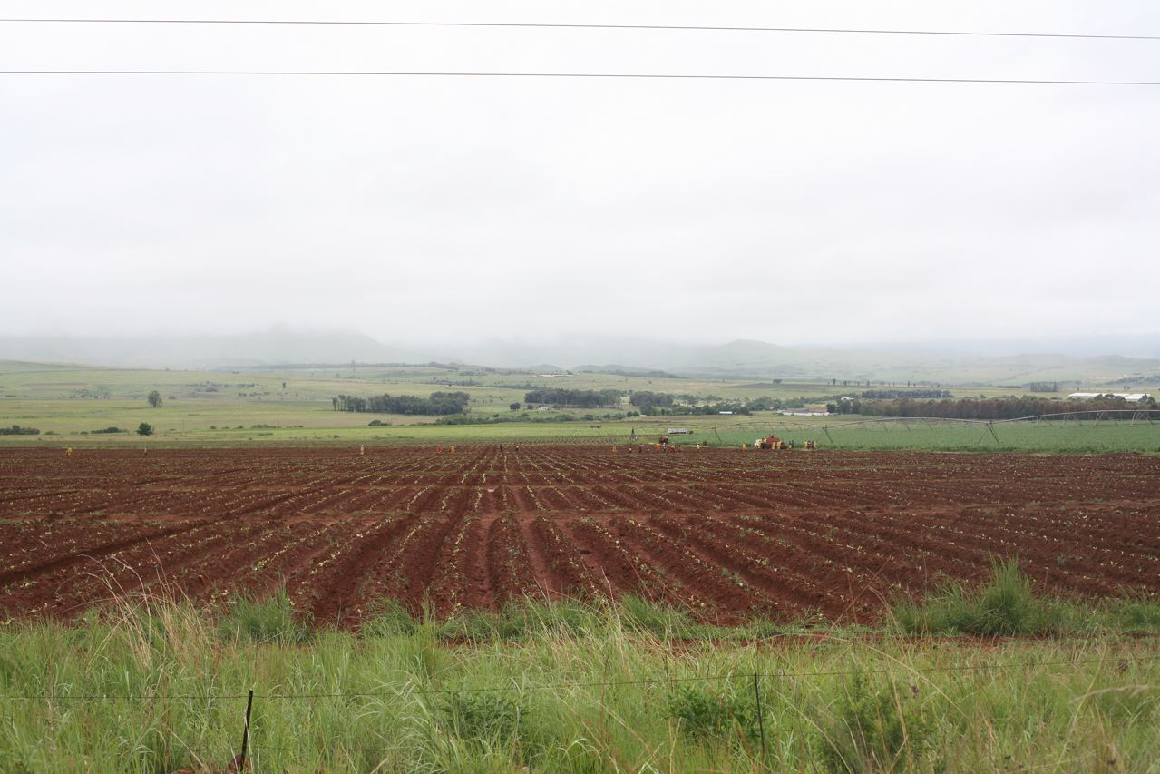 A farm in Mpumalanga, South Africa